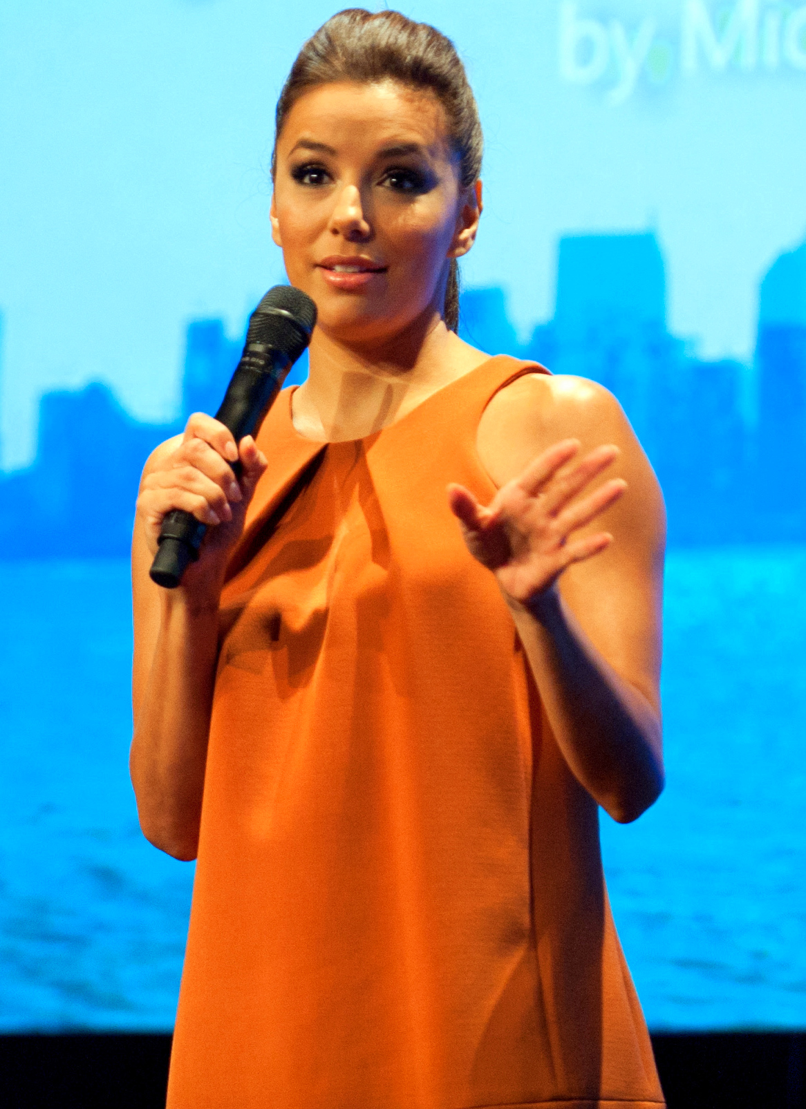 Eva Longoria at Imagine Cup 2011.